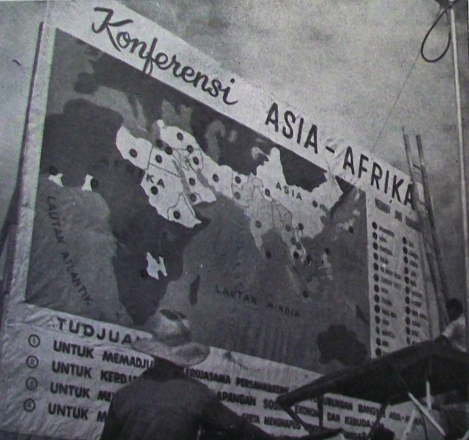 Conference poster of the Bandung Conference.